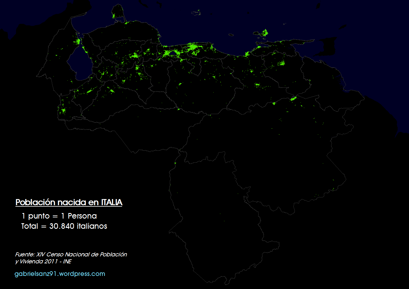 Map of Venezuela, showing by dots the distribution of residents born in Italy, according the National Census (2011). Each dot is one italian-born resident